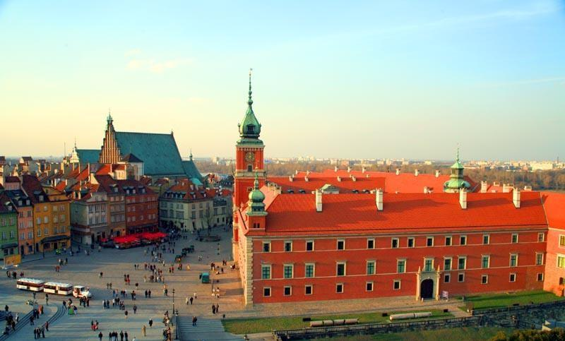 Exterior of Warsaw Royal Castle